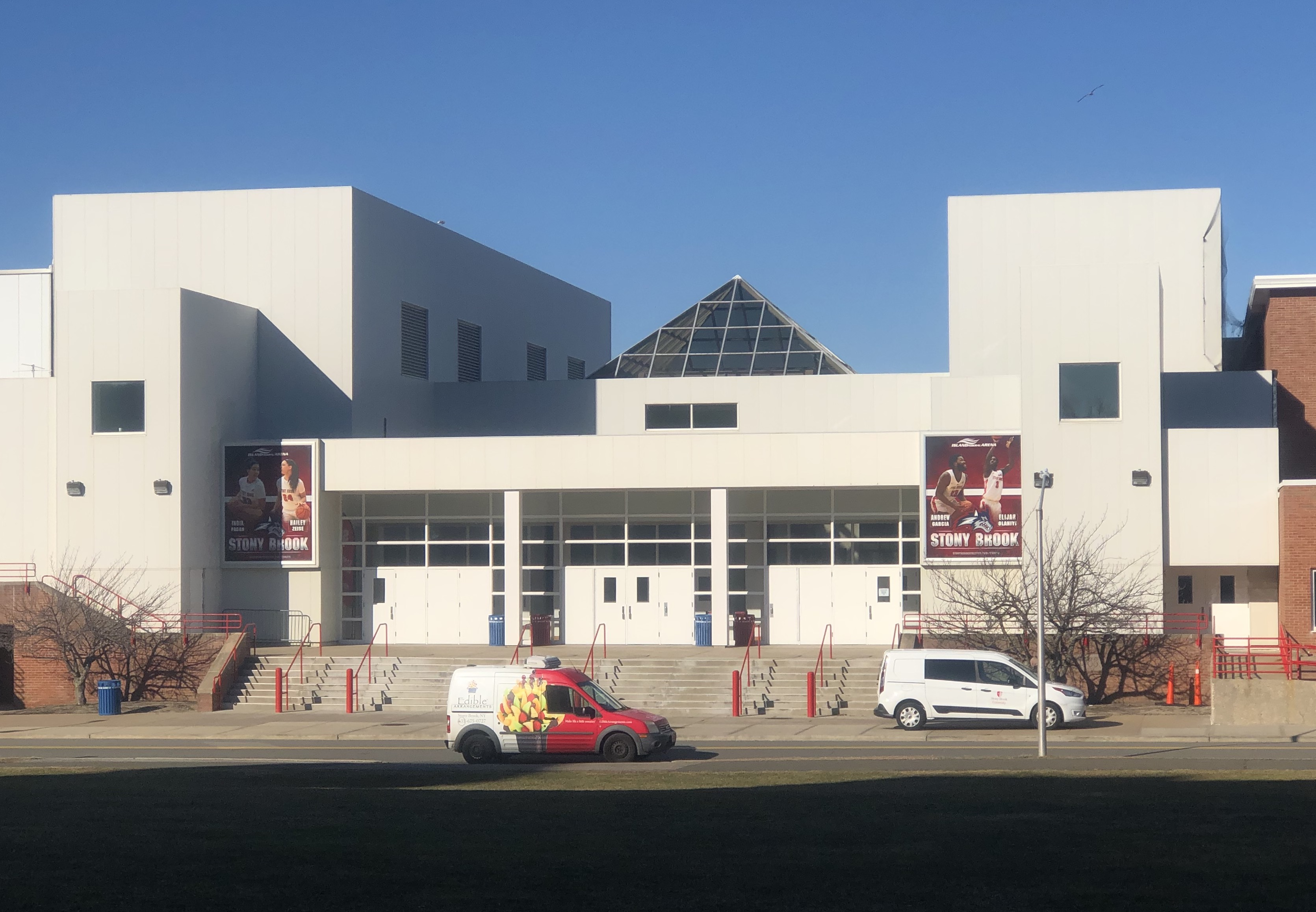 The exterior of the Stony Brook Indoor Sports Complex